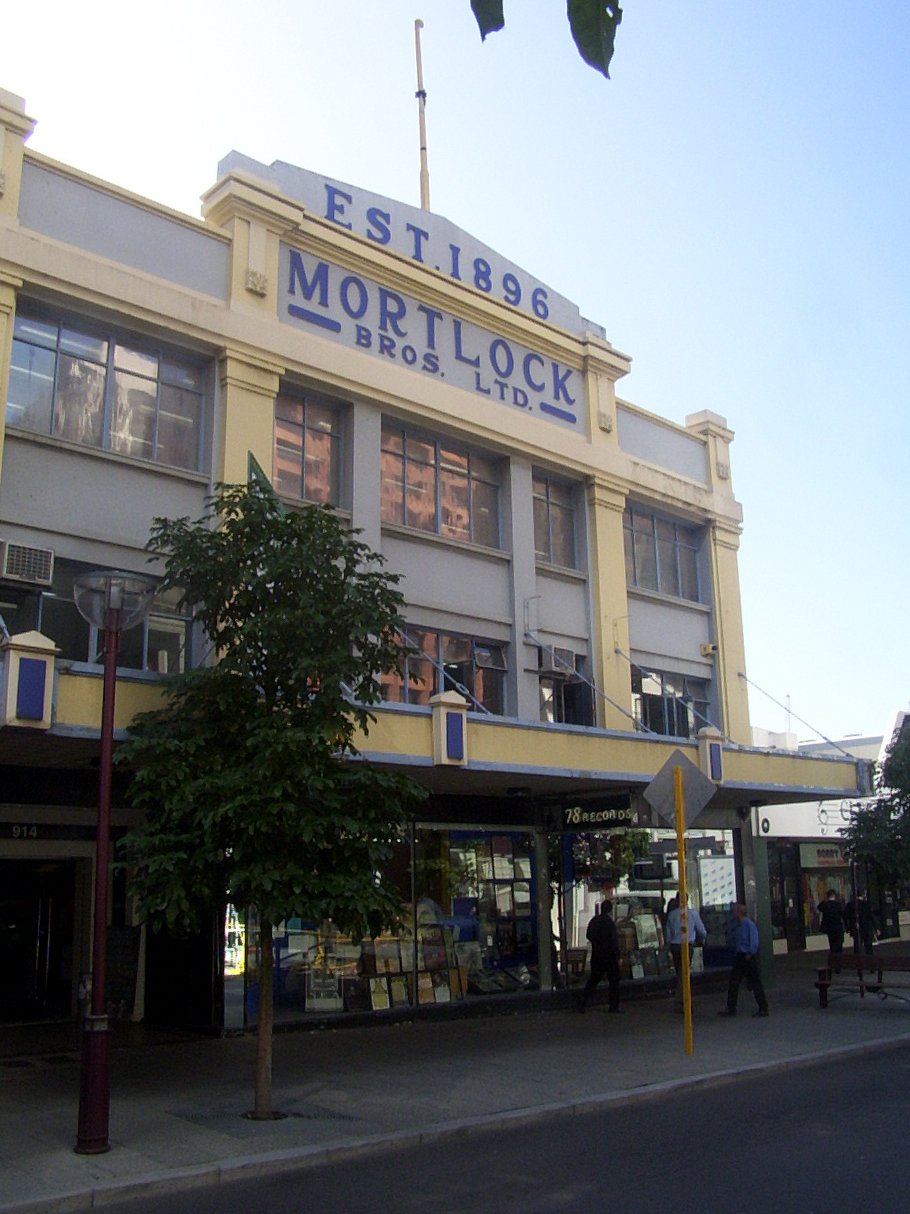 The Mortlock Brothers Building (built 1896) on Hay Street in Perth, Western Australia. Location of 78 Records until 2012/2013. Taken with Kodak DX3215 digital camera.